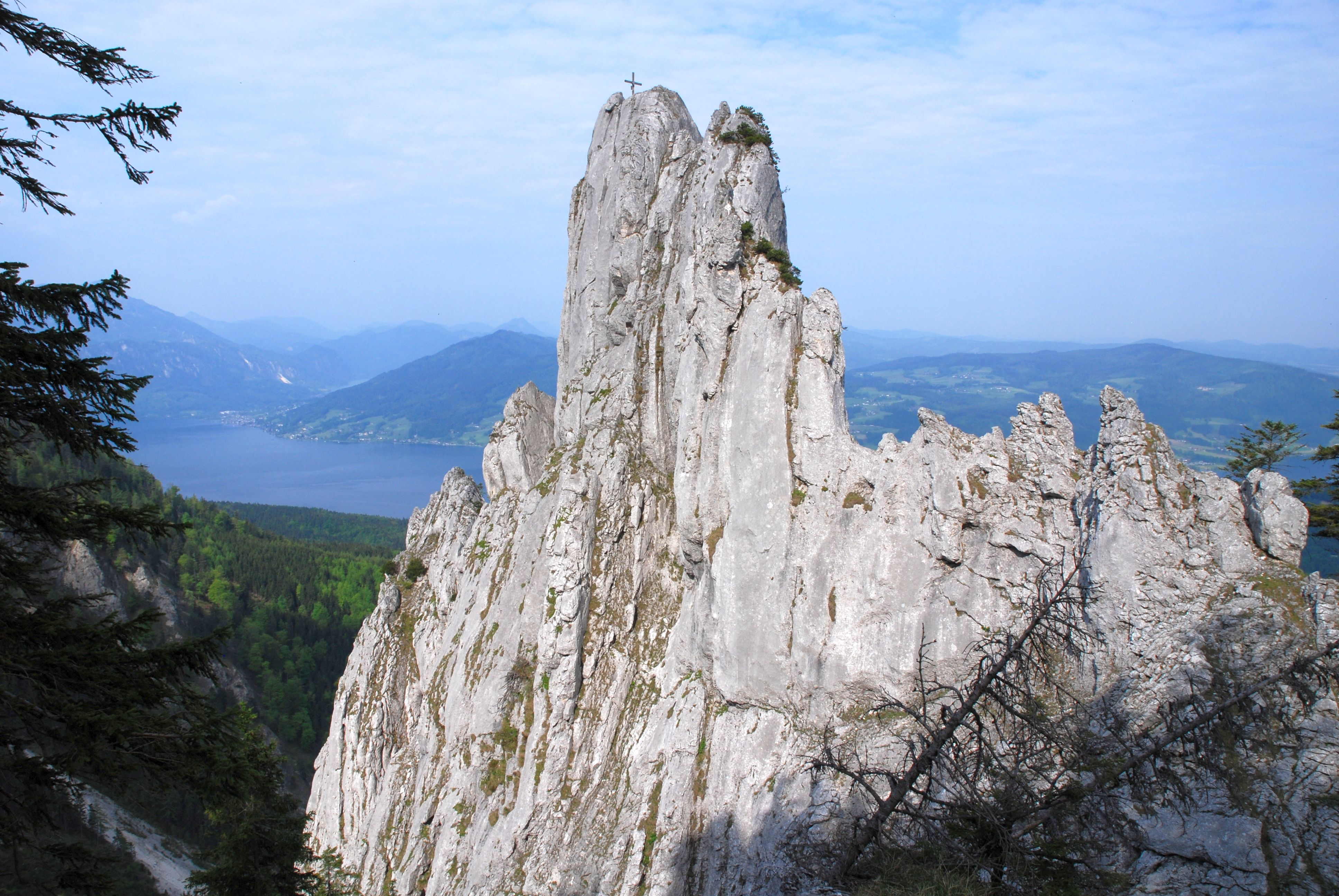 Adlerspitze, Höllengebirge, Austria